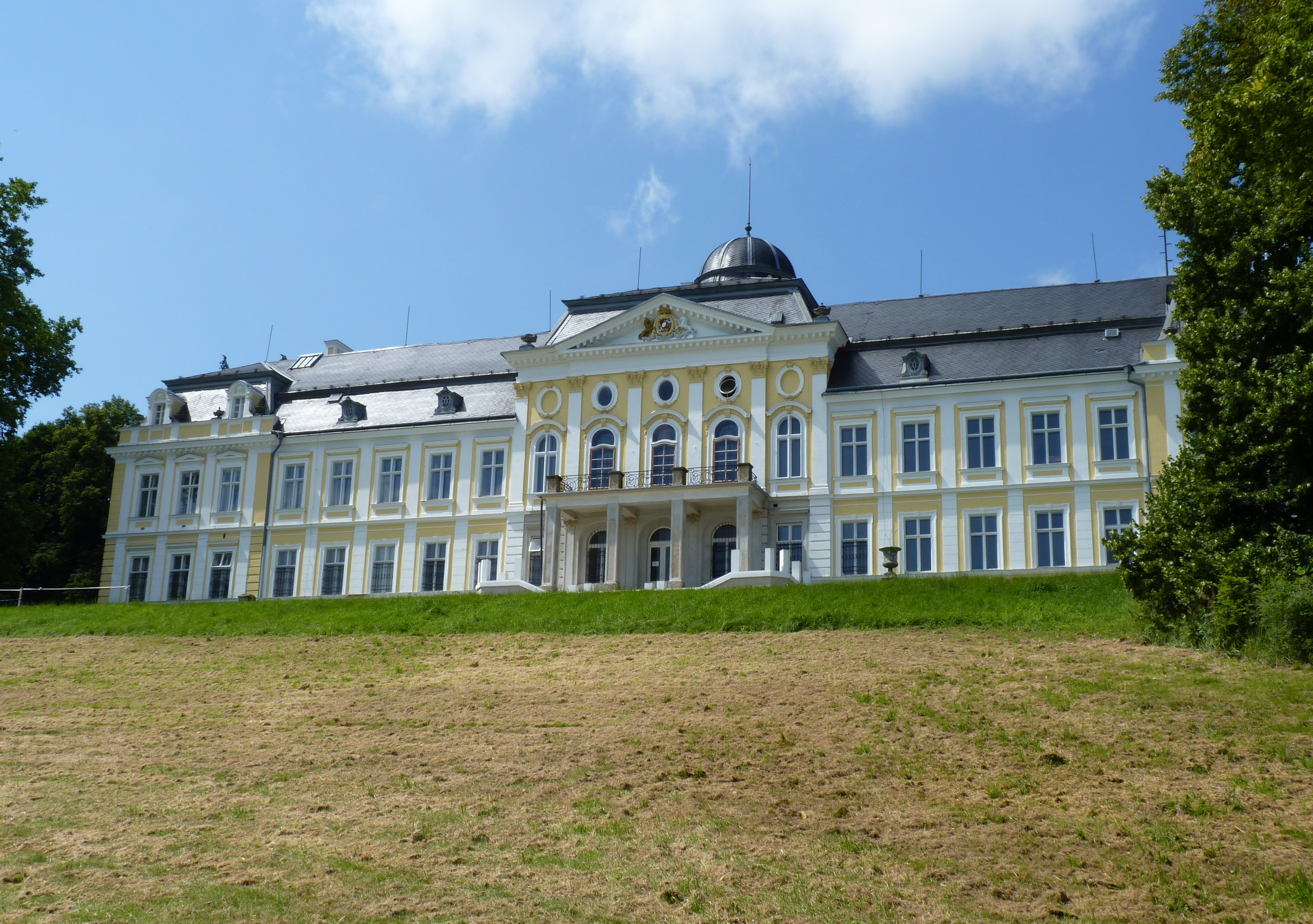 Castle in Šilheřovice. Opava District, Moravian-Silesian Region, Czech Republic